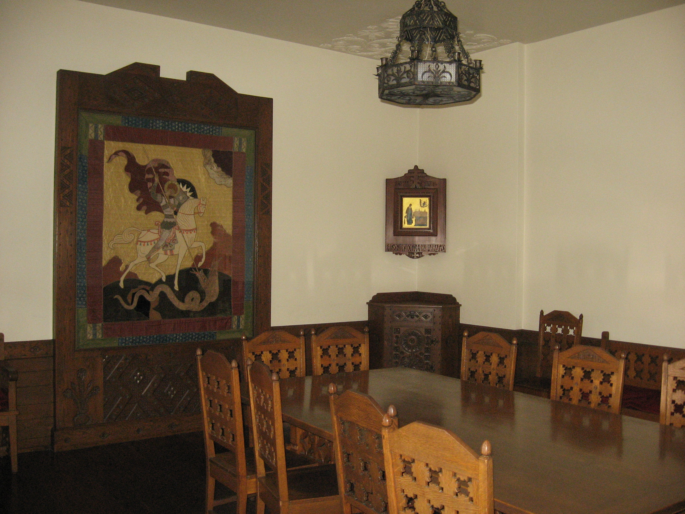 Russian Nationality Room of the Nationality Rooms at the University of Pittsburgh's Cathedral of Learning